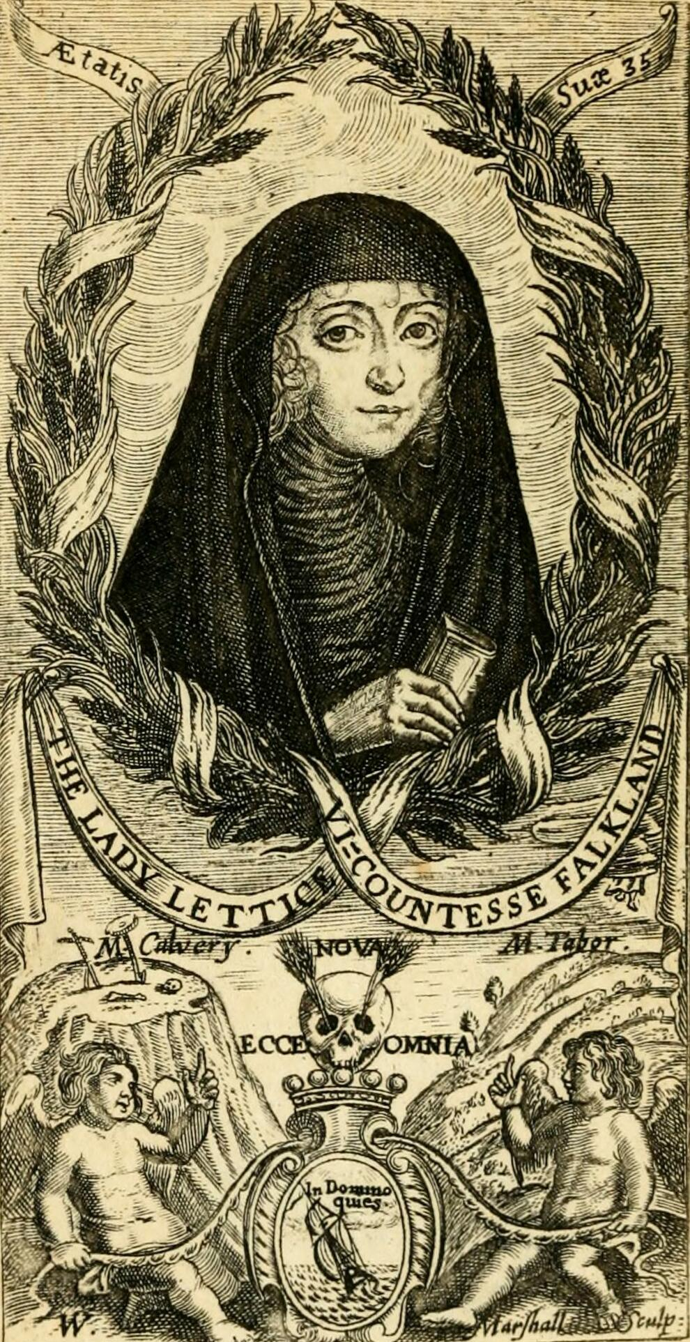 Portrait of Letice or Lettice Cary, Viscountess Falkland (1612?-1646), as a widow.